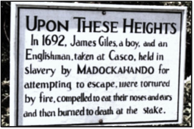 Plaque to the death of James Giles (John Gyles' brother), Dyce Head Lighthouse Rd., Castine, Maine